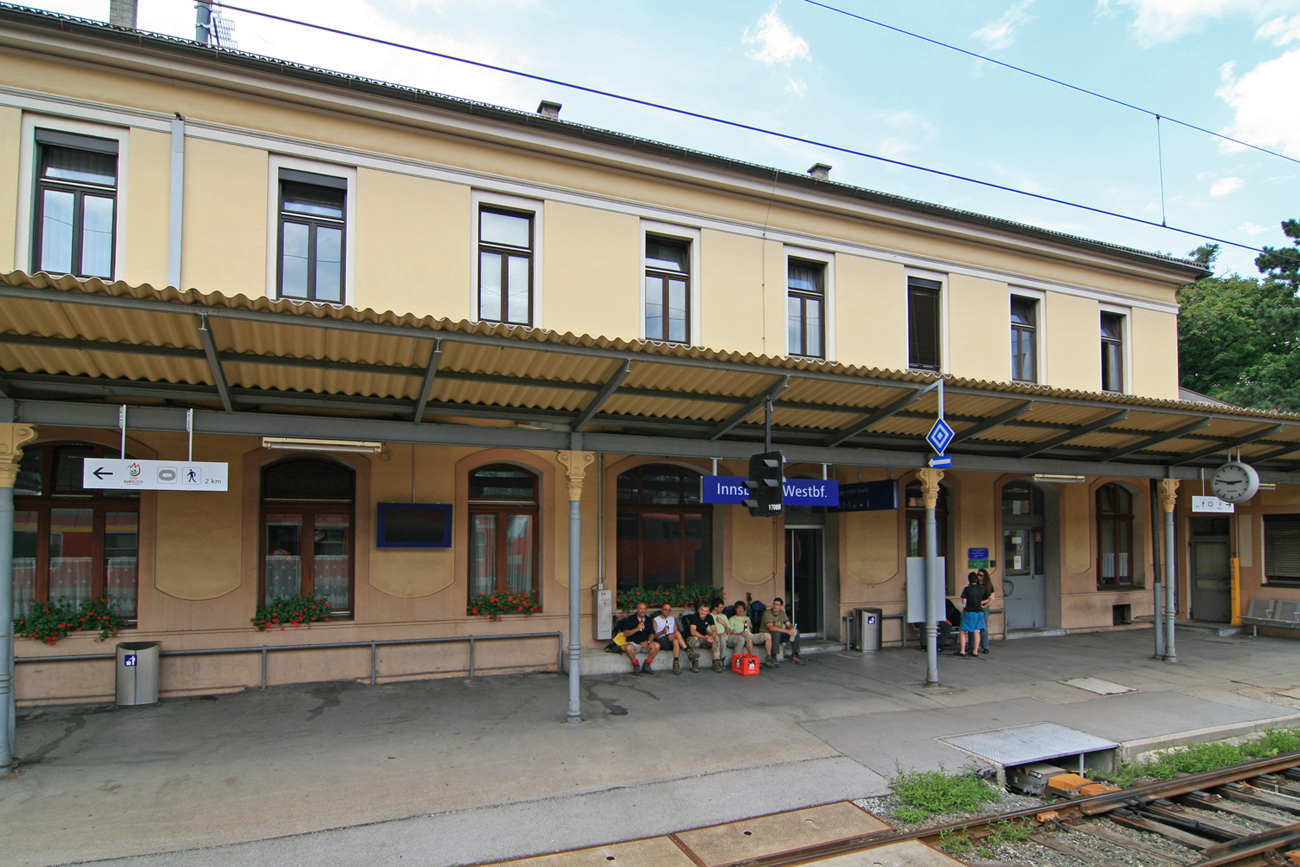 Innsbruck Westbahnhof